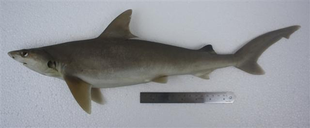 Whitecheek shark (Carcharhinus dussumieri) at Terengganu, Malaysia